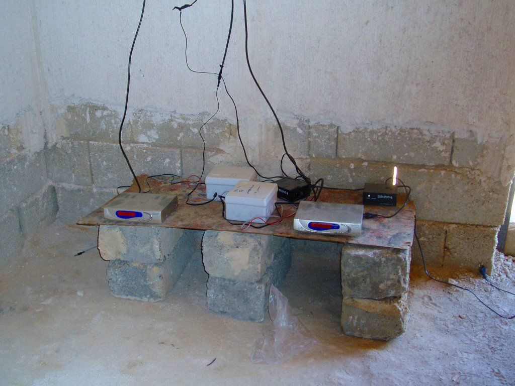 Improvised explosive devices found in a house under construction in Iraq, utilising video cassette recorders as timers. ***CRITICAL INTEL UPDATE UC\\FOUO: Intel provided previous to this image is inaccurate - these are Long Range Cordless Telephone (LRCT) Base Stations - NOT VCR's they have a range of 48-150 Km and are used to activate Radio Controlled IED's RCIED and are the most common threat in Iraq 2nd to car alarm controllers.... BOMBJAMMER - V.I.P.E.R 0-1... [1]